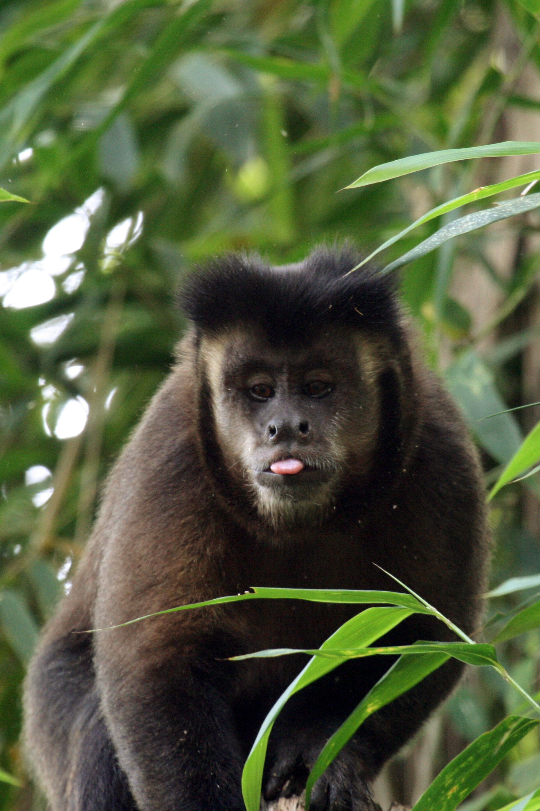 Black capuchin (Sapajus nigritus) in Brazil.